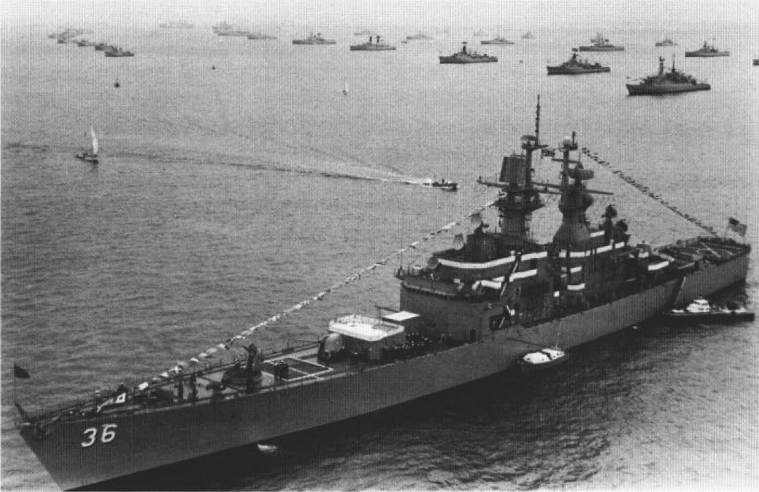 The U.S. Navy guided missile cruiser USS California (CGN-36) at the 1977 Spithead Fleet Review on occasion of the Silver Jubilee of the reign of Queen Elisabeth II.